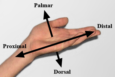 A simple hand, showing anatomical directions